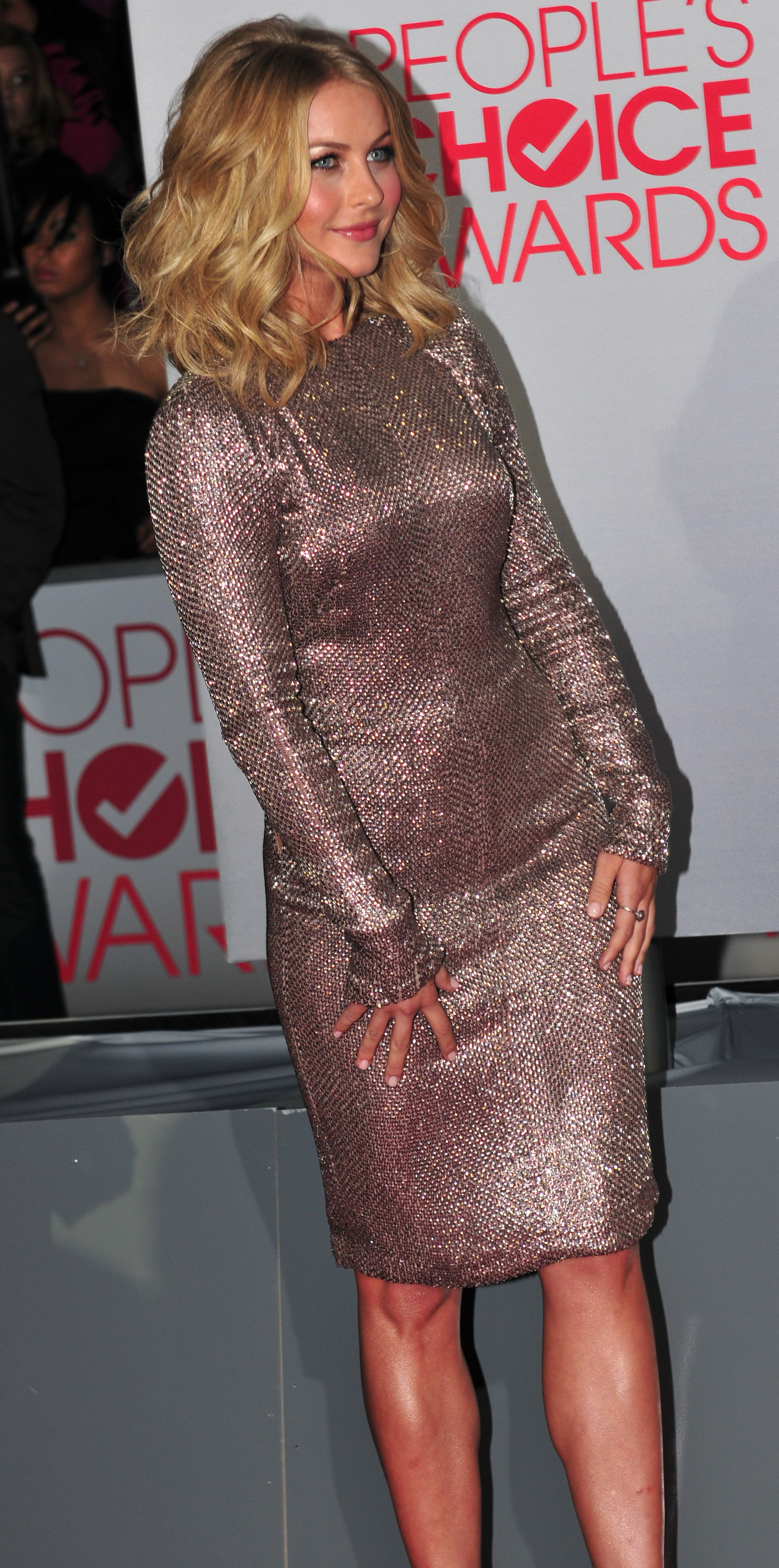 Julianne Hough on the red carpet at the 38th People's Choice Awards on January 11, 2012, at the Nokia Theatre in Los Angeles, California. (JJ Duncan/ )